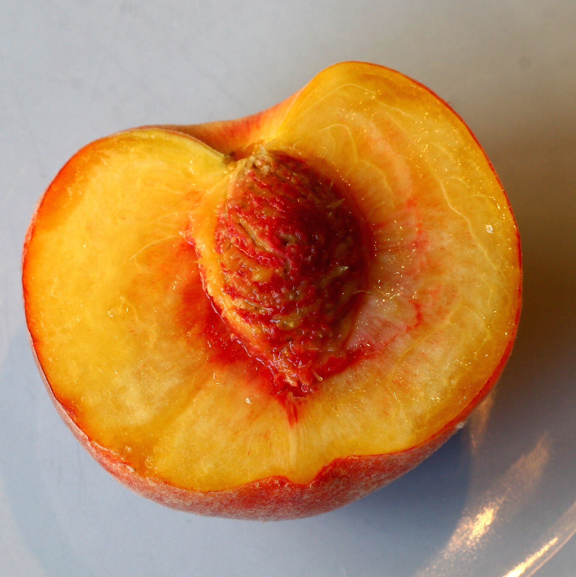 juicy peach half